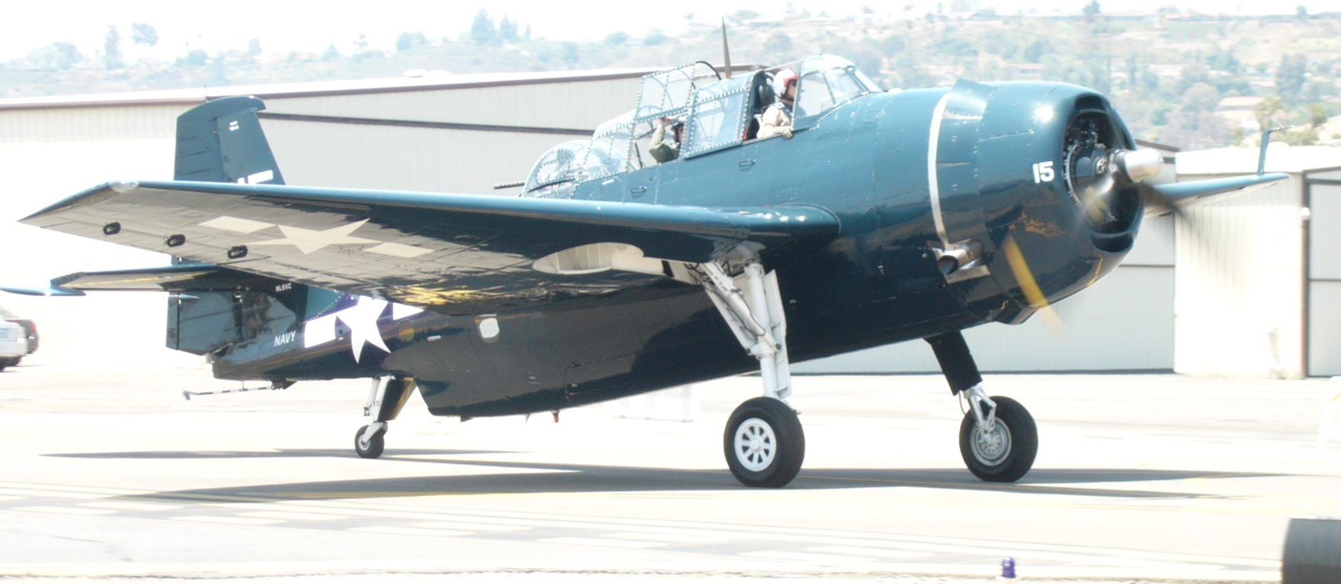 Grumman TBF Avenger on the tarmac at the 2012Wings Over Gillespie airshow